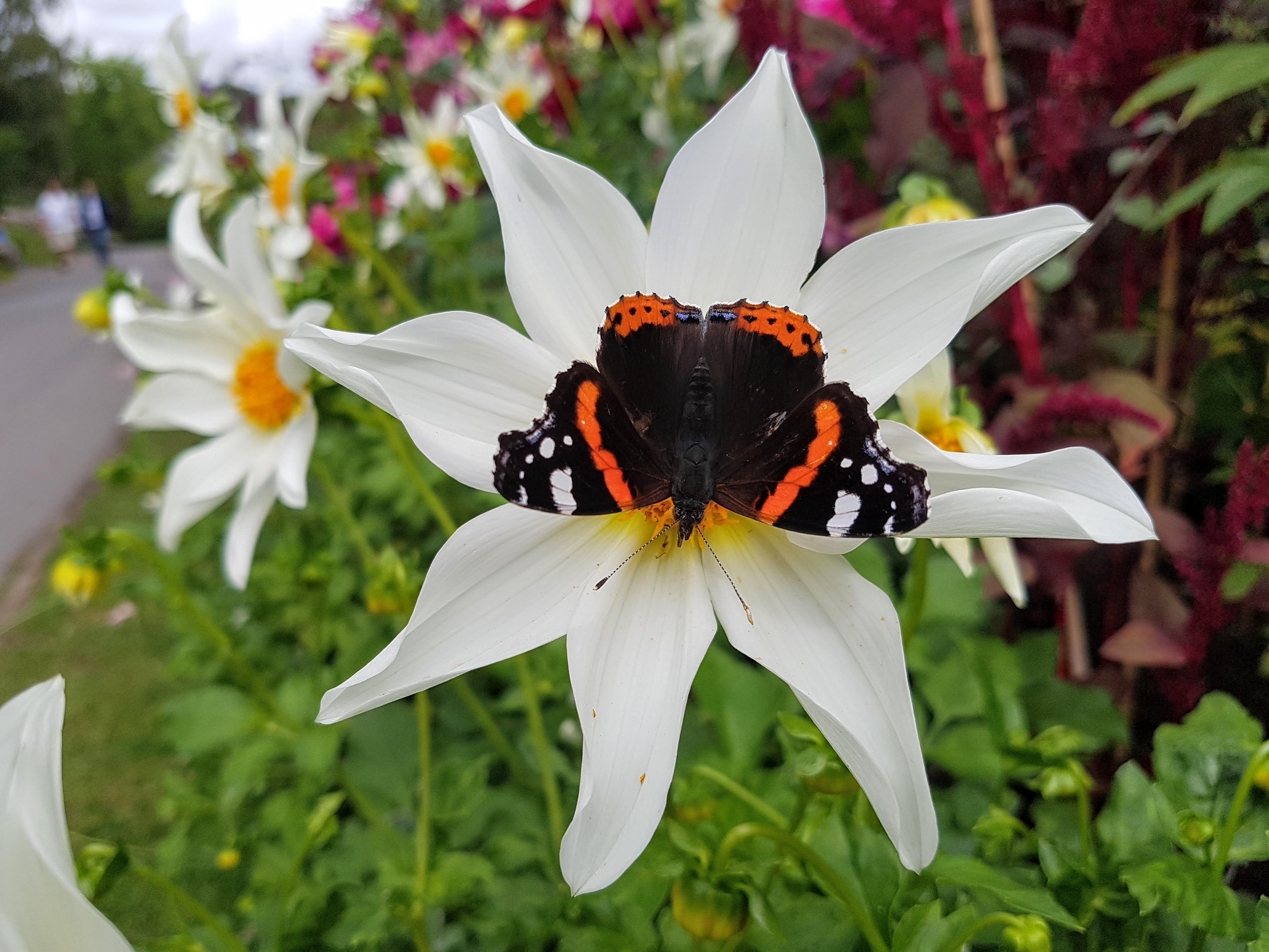 Red Admiral on a dahlia flower at Botaniska garden, Gothenburg, Sweden.